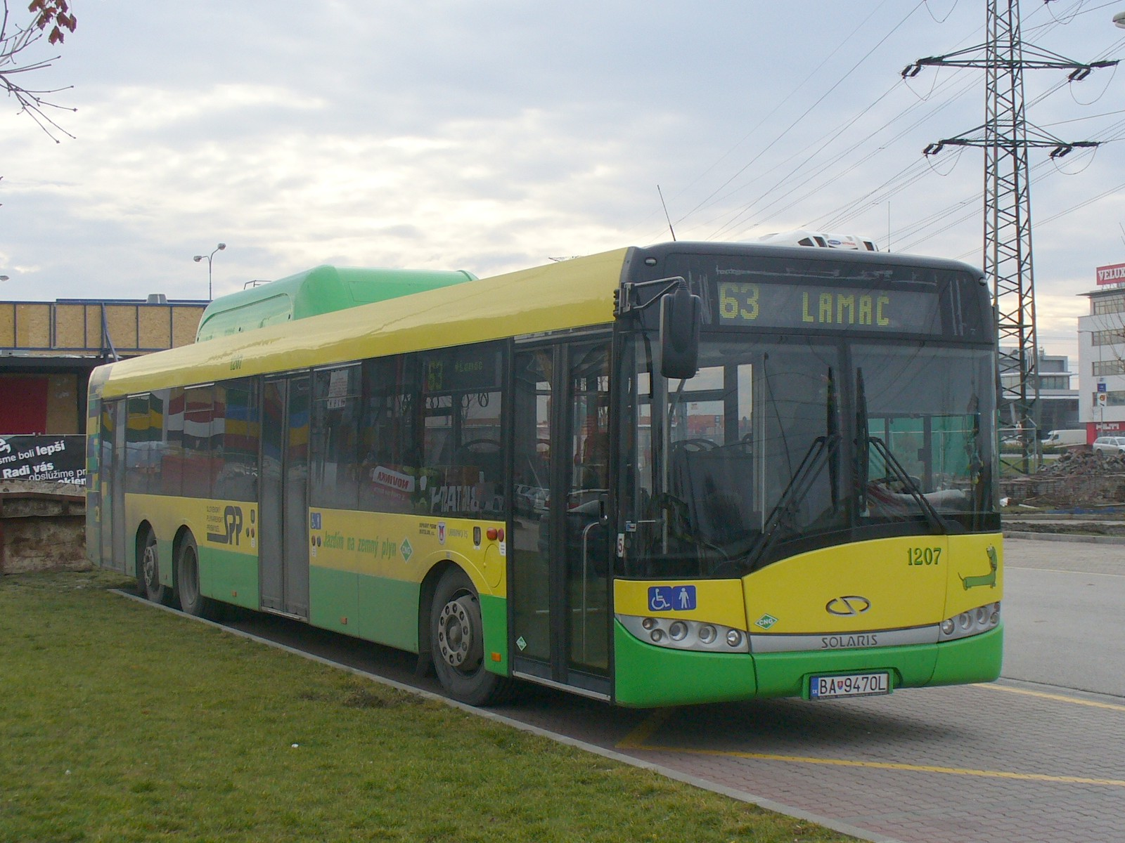 Solaris Urbino 15 CNG Mk3 bus (#1207) in Bratislava, Slovakia. Built 2006, DP Bratislava operator.